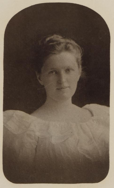 Title Alice (du Pont) du Pont, 1863-1937 Date Created (start) 1880 Date Created (end) 1900 Former owner Du Pont, Pierre S. (Pierre Samuel), 1870-1954 Subject(s) - Name Du Pont, Alice, 1863-1937 Find all items with name(s) Du Pont, Pierre S. (Pierre Samuel), 1870-1954 Du Pont, Alice, 1863-1937 Genre portrait photographs Language English Type of resource still image Extent 1 photographic print : b&w Repository Audiovisual Collections and Digital Initiatives Department, Hagley Museum and Library